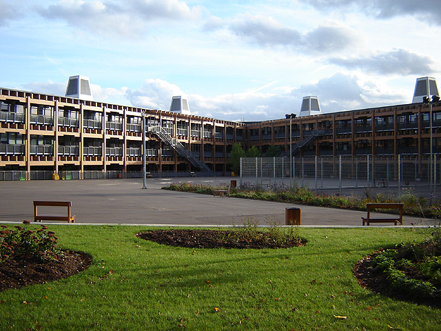 Mossbourne Community Academy, Hackney Downs, Hackney, London. 20 October 2005. Photographer: Fin Fahey. Building designed by the Richard Rogers Partnership, now known as the Rogers Stirk Harbour + Partners.